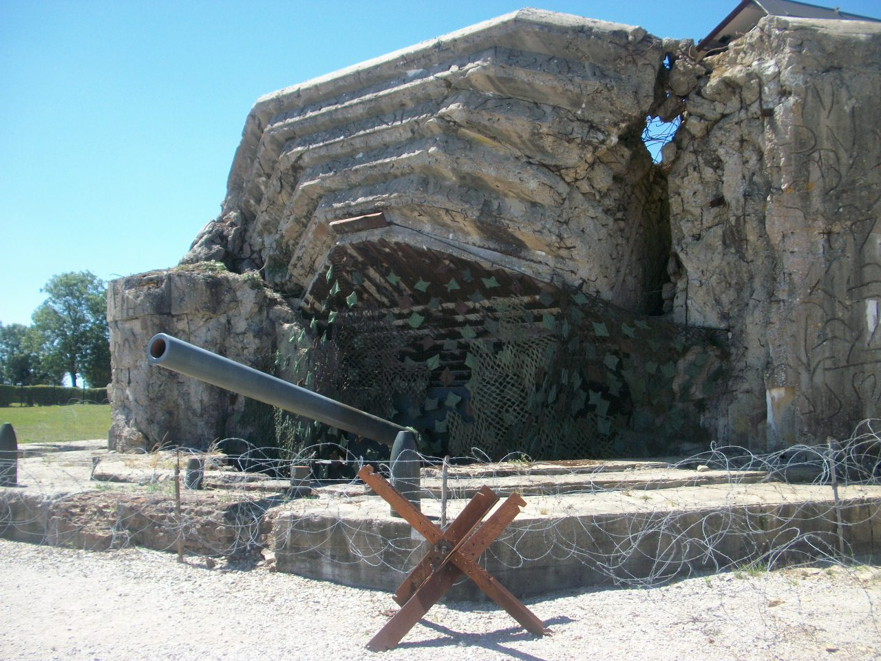 No. 19 Casemate of the Crisbecq Battery after the 21 August 1944 explosion